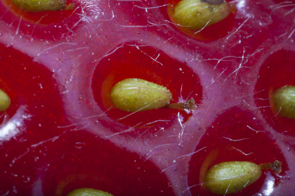 The achenes of a strawberry pit its red skin with green. Roughly 4.25x magnification. ds543: "Make a photograph dominated by the color red today." Flash above camera center, fired through cheesecloth. Full power, 105mm. Canon Bellows FL with FD 35mm f/2.8 Macro Photo bellows lens at f/22.